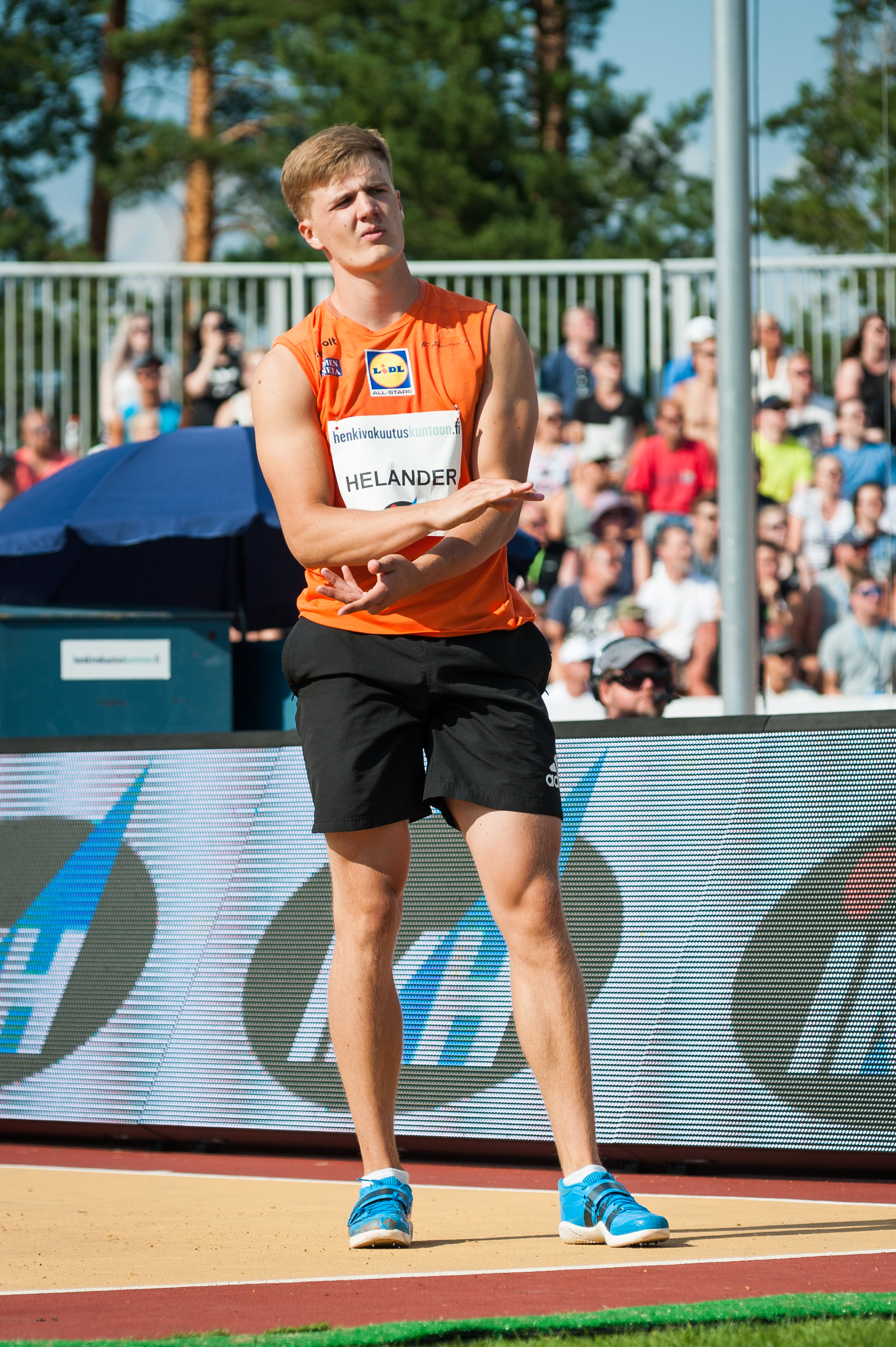 Men's javelin throw competition at the 2018 Kalevan Kisat, the Finnish championships in athletics, in Jyväskylä, Finland.